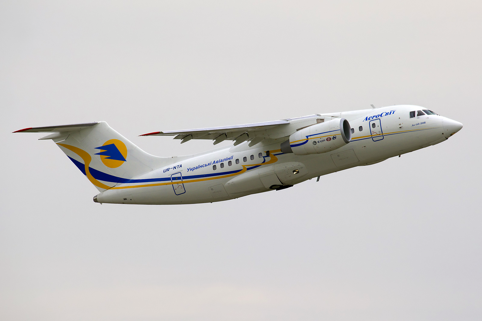 An AeroSvit Ukrainian Airlines Antonov An-148-100B at Boryspil International Airport (KBP / UKBB)